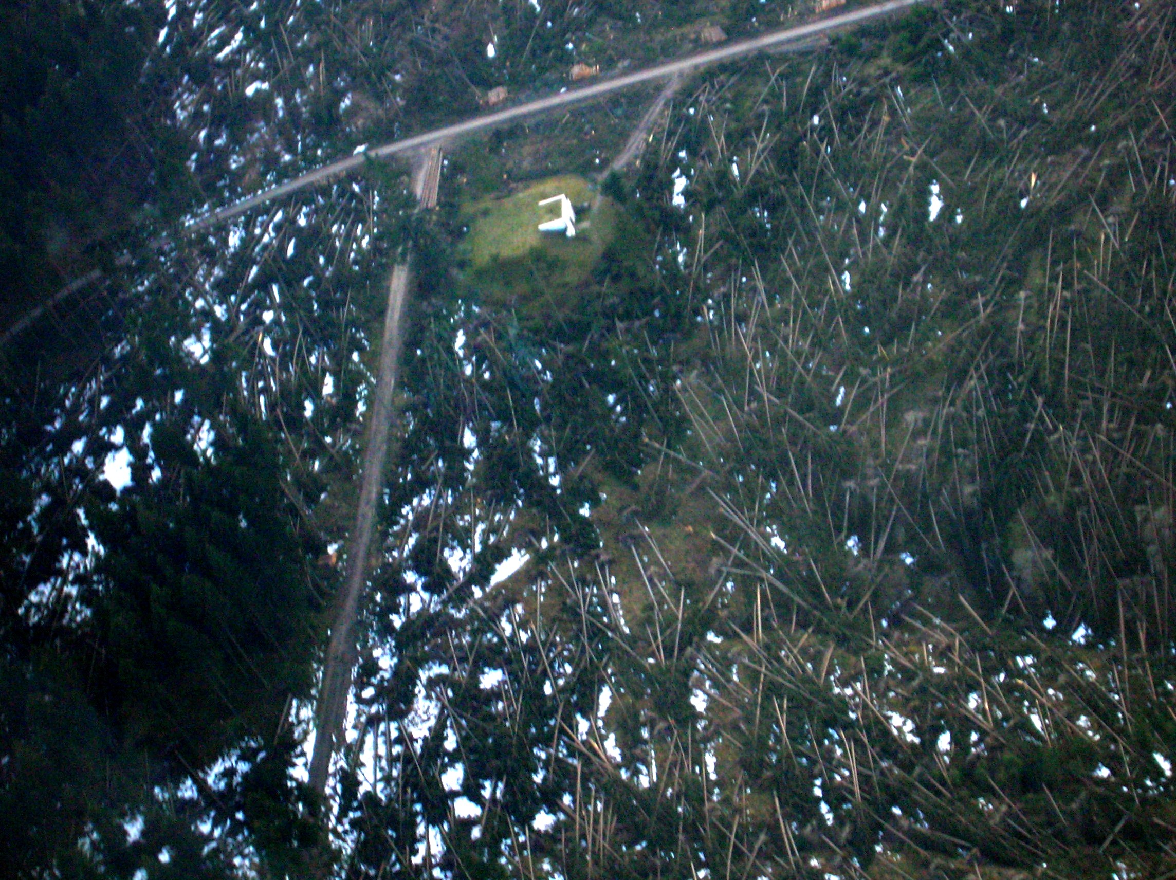 near Schmallenberg, some weeks after Kyrill